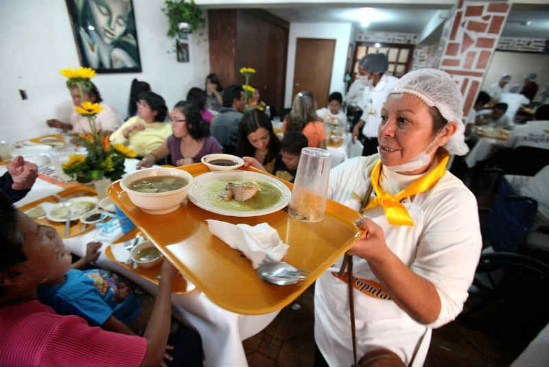 Soup Kintchen in Mexico city